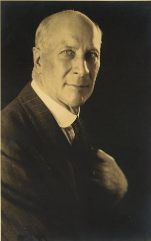 Sir Bertram Mackennal by Ruth Hollick c. 192